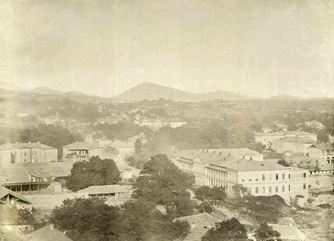 Kutaisi city, Georgia; 1870s Category:Images of Georgia (country) The copyright status has expired in Georgia